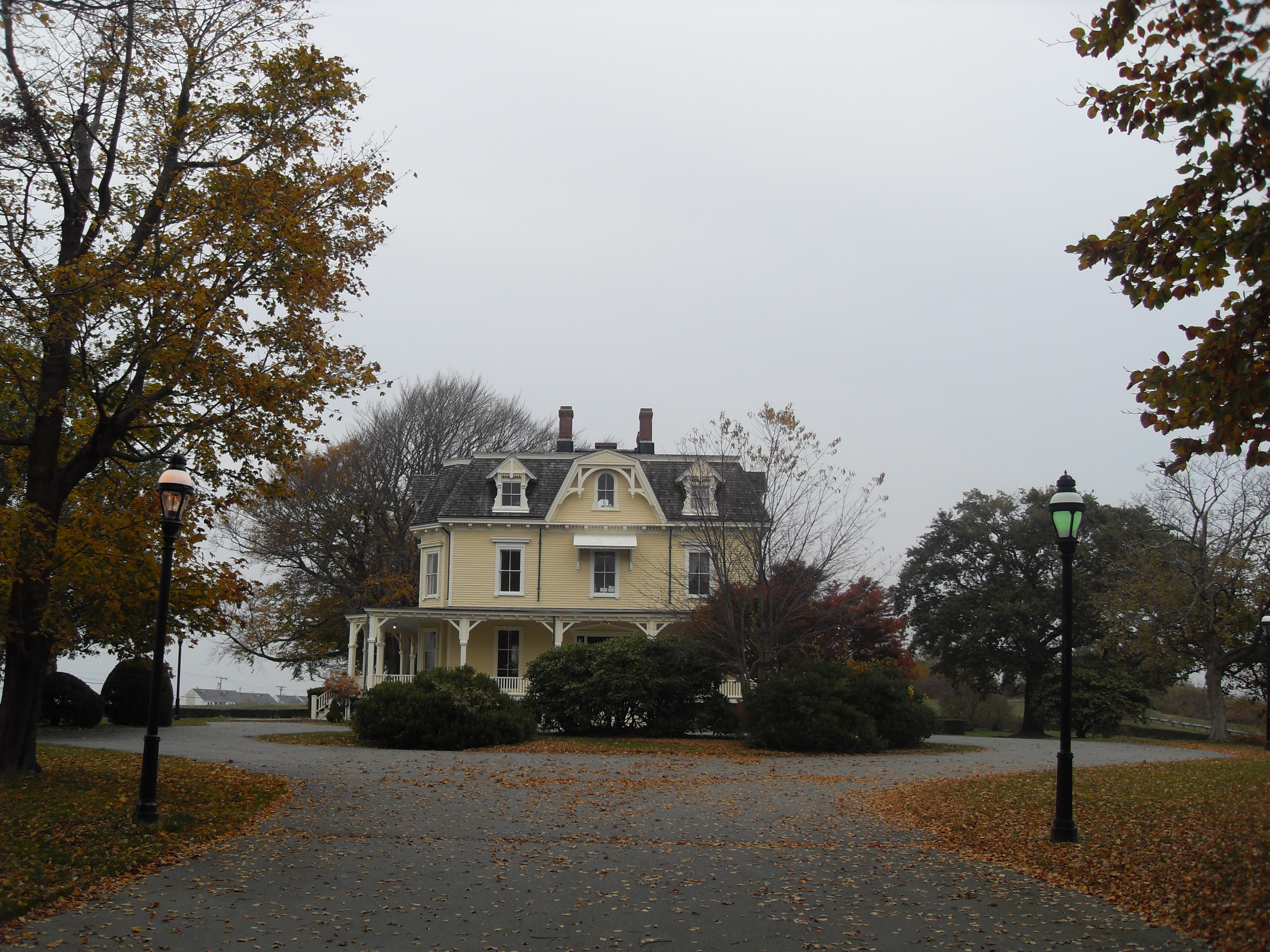 The Eisenhower House , Fort Adams, Newport, RI